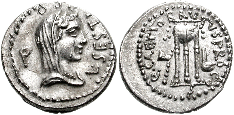 Brutus. 42 BC. AR Denarius (18mm, 3.64 g, 12h). Military mint with Brutus and Cassius in the East. L Sestius, pro-quaestor. Veiled and draped bust of Libertas right, wearing pearl necklace / Tripod between axe and simpulum. Crawford 502/2; CRI 201; Sydenham 1290; RSC 11. EF, micro-granularity, traces of die rust on obverse.